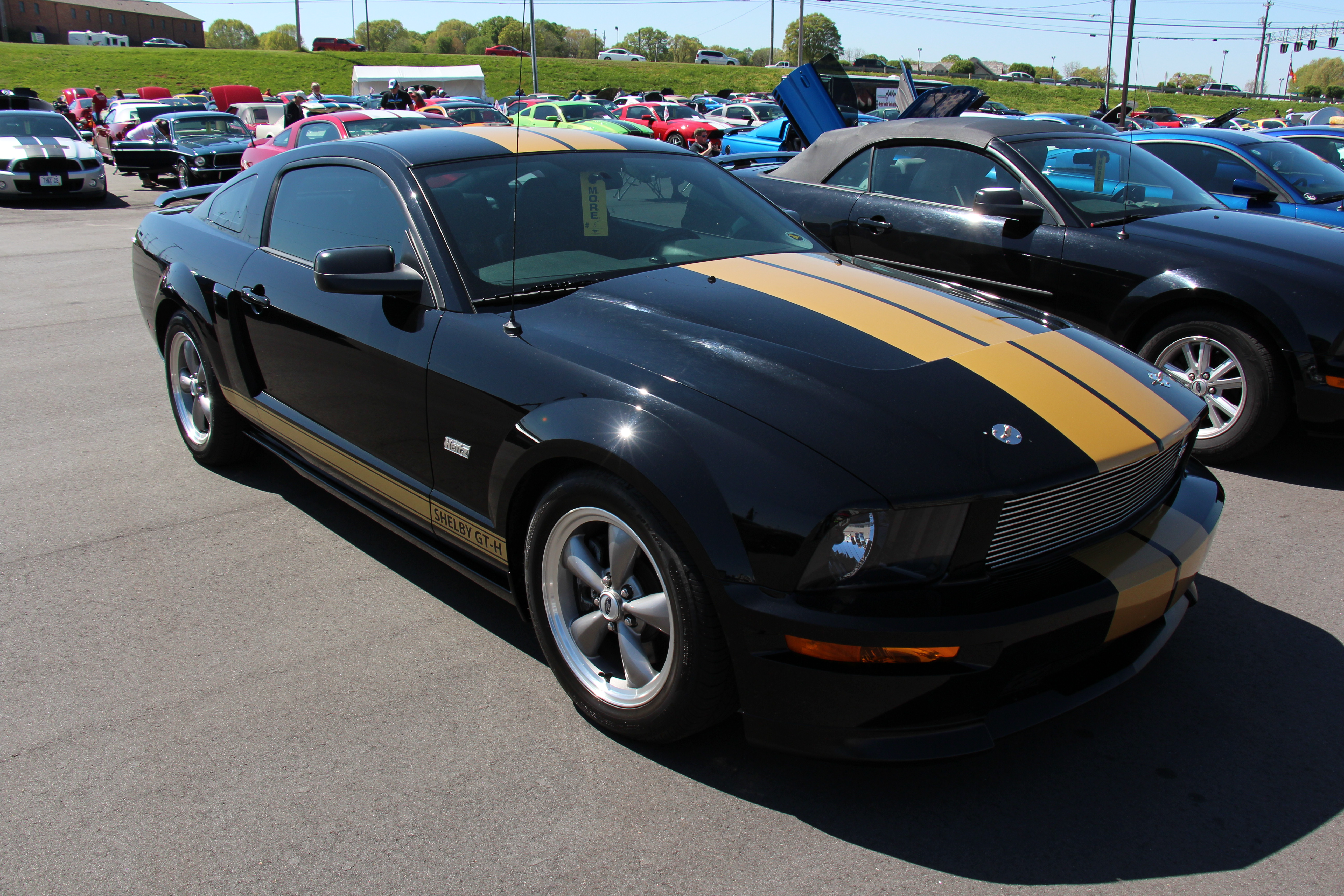 Black. The fifth generation began with the 2005 model year, and received a facelift in 2010 and again in 2013. The styling was influenced by the 1st generation Mustangs, headlights set back from the grille like the 67, 68 and the fastback roofline like the 65, 66. The 2006 Shelby GT-H and later Shelby GT, were based on the standard GT model, but modified by Carroll Shelby International to produce 319 hp by means of a Ford Racing air intake, performance tune, and upgraded exhaust system. The original Shelby GT-H, was a fleet vehicle for Hertz car rental back in 1966. The GT-H was available back then and now only in Hertz's corporate colors: black exterior and twin gold racing stripes Engine; 319 hp 4.6 L V8. Photographed at the 50th Anniversary of the Mustang celebrations at the Charlotte Motor Speedway, April 2014